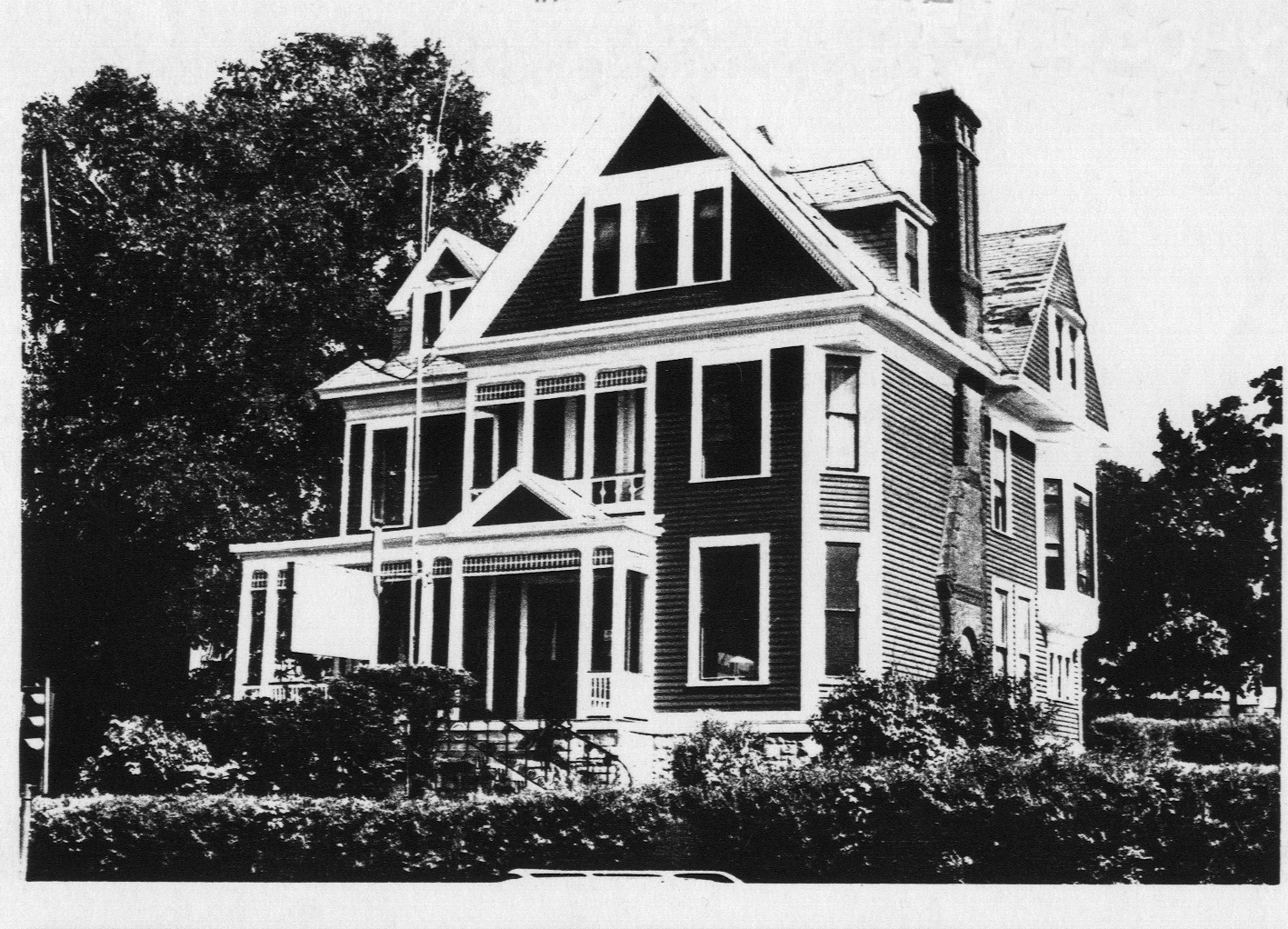 Elliot Smith House, Worcester, Massachusetts. This house has been demolished.